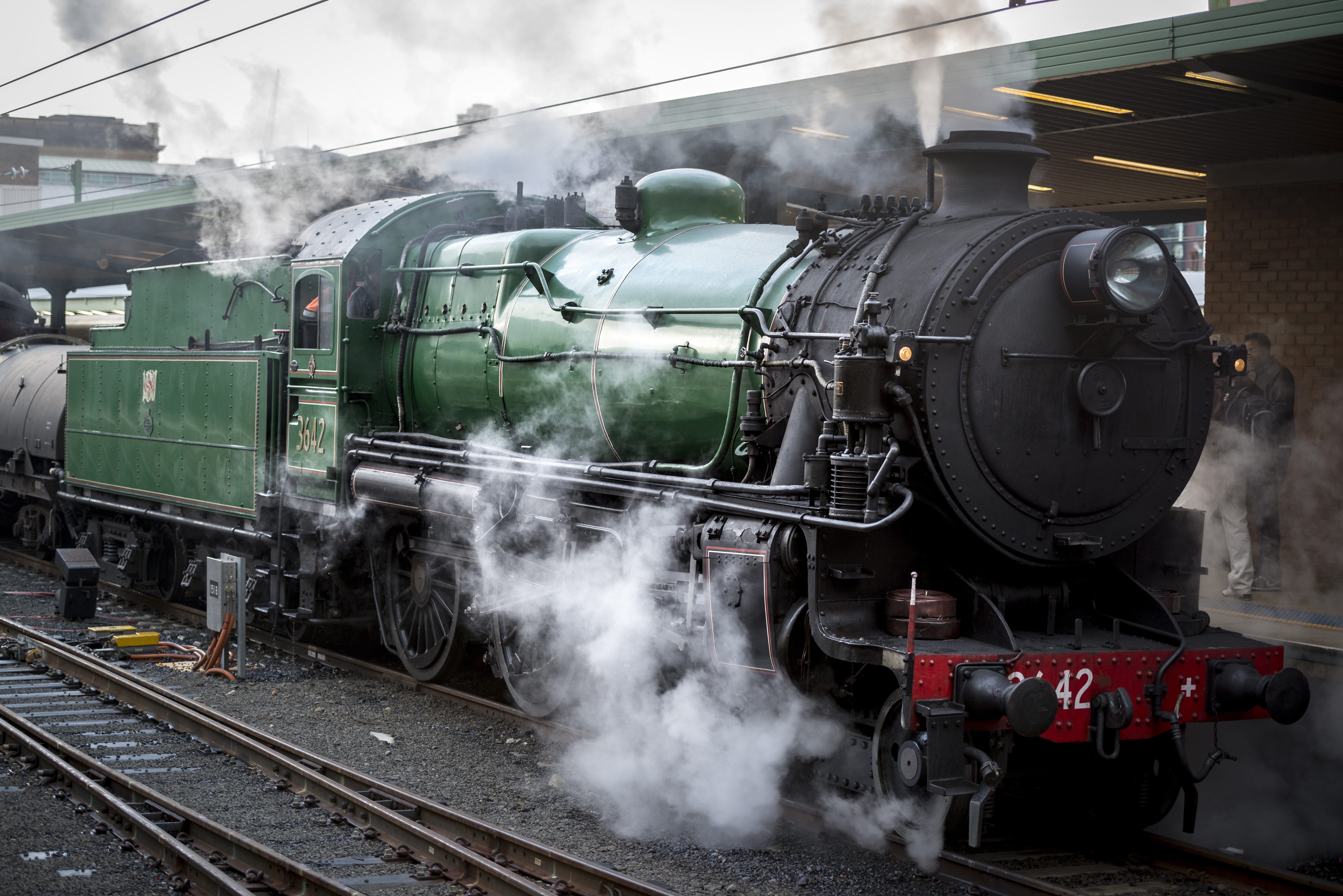 NSWGR 3642 during 2014 Great Train Race at Sydney Central Station